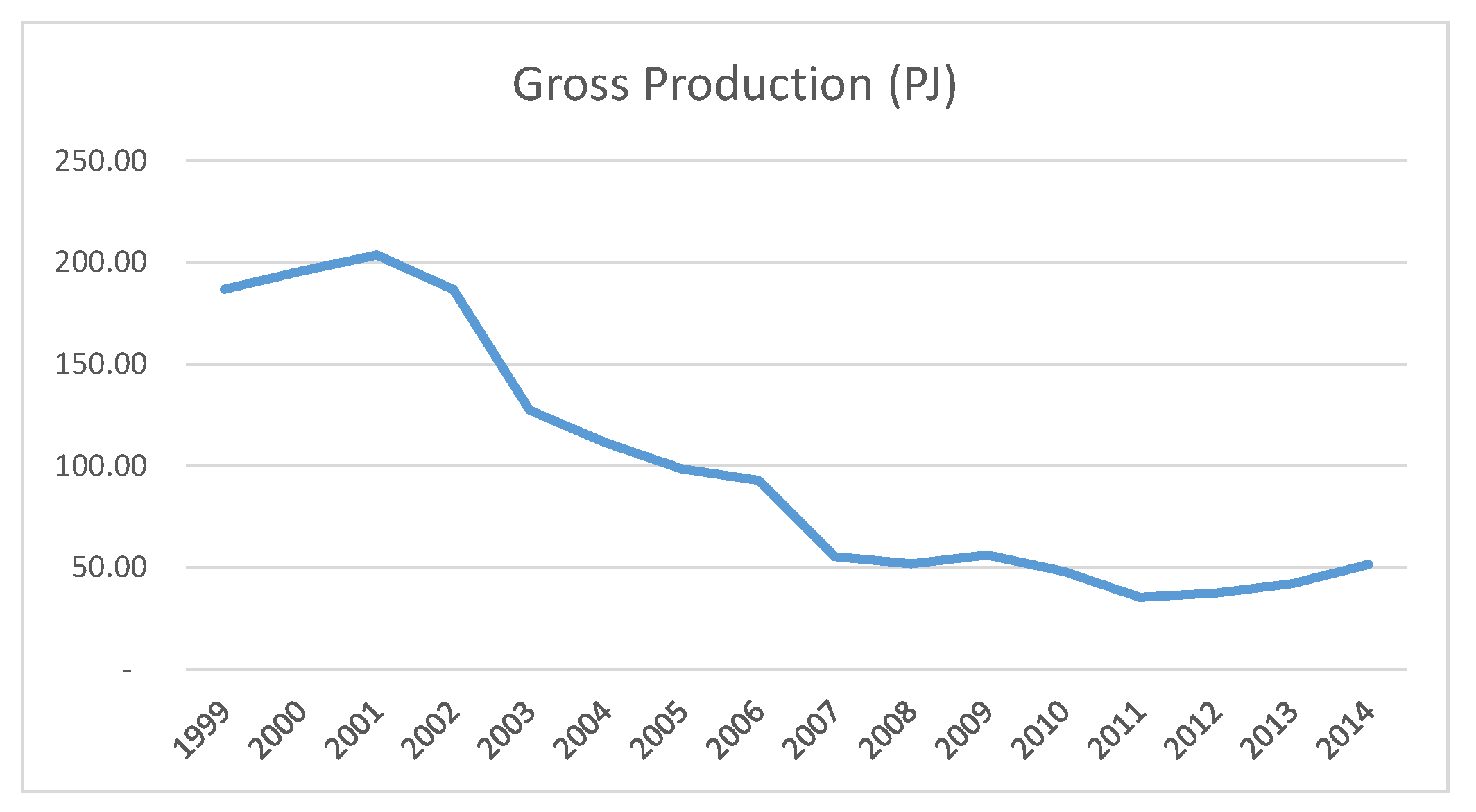 Tabulated data from for display in